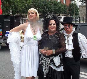 Drag queens Luc D'Arcy and Carbonera and friend at the 2003 Divers-Cité pride parade in Montreal.